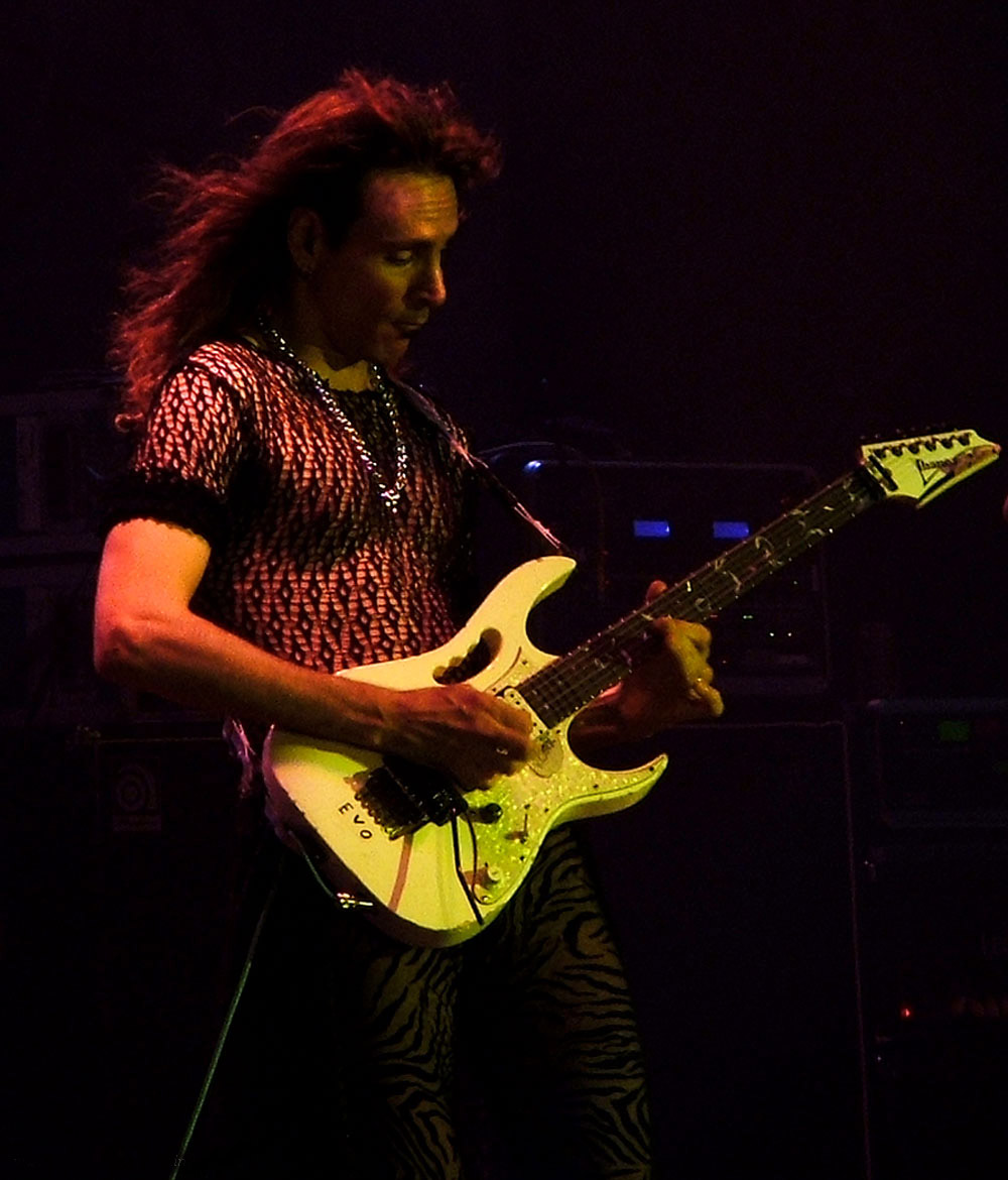 Steve Vai in Milan (Alcatraz), 25th September 2005.